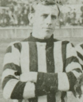 Photograph of Bill Carden in 1908.